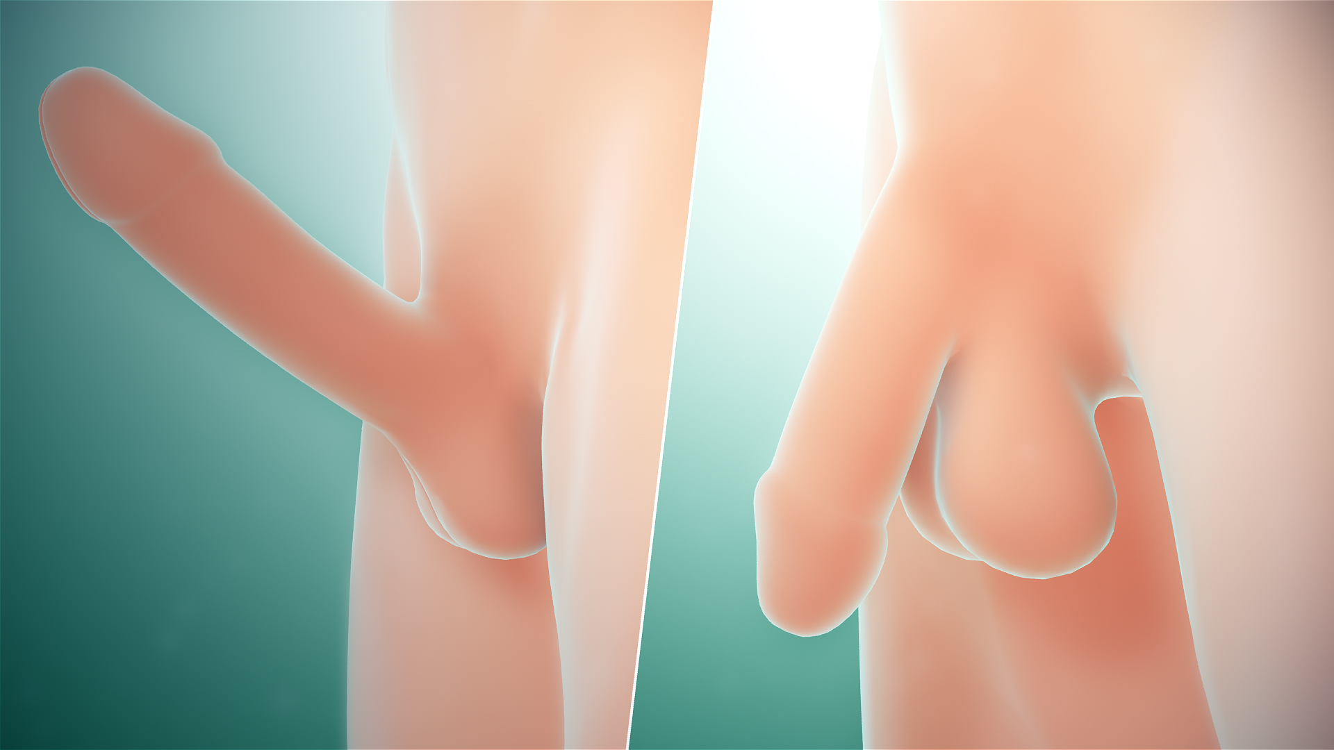 Normal Erection(L) Vs. Erectile dysfunction(R)